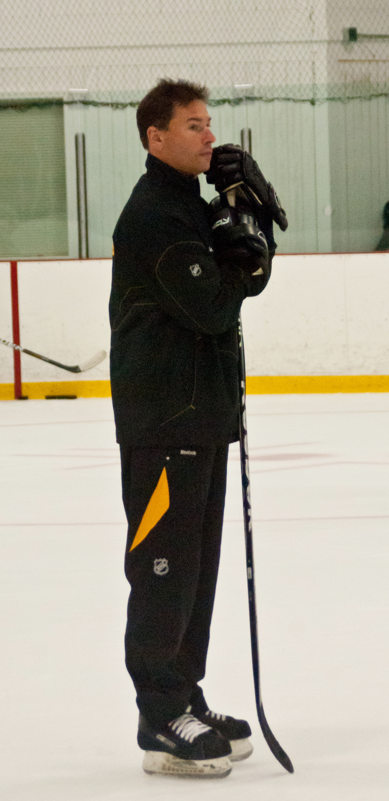 Bruins Dev Camp-6952.jpg Boston Bruins 2011 Development Camp - Day 3 National Hockey League (NHL) Photo taken by Sarah Connors at Wilmington, Massachusetts on July 9, 2011 using a Nikon D200. This photo also appears in sarah_connors' Flickr set: Bruins 2011 Development Camp - Day 3 (Set: 109)